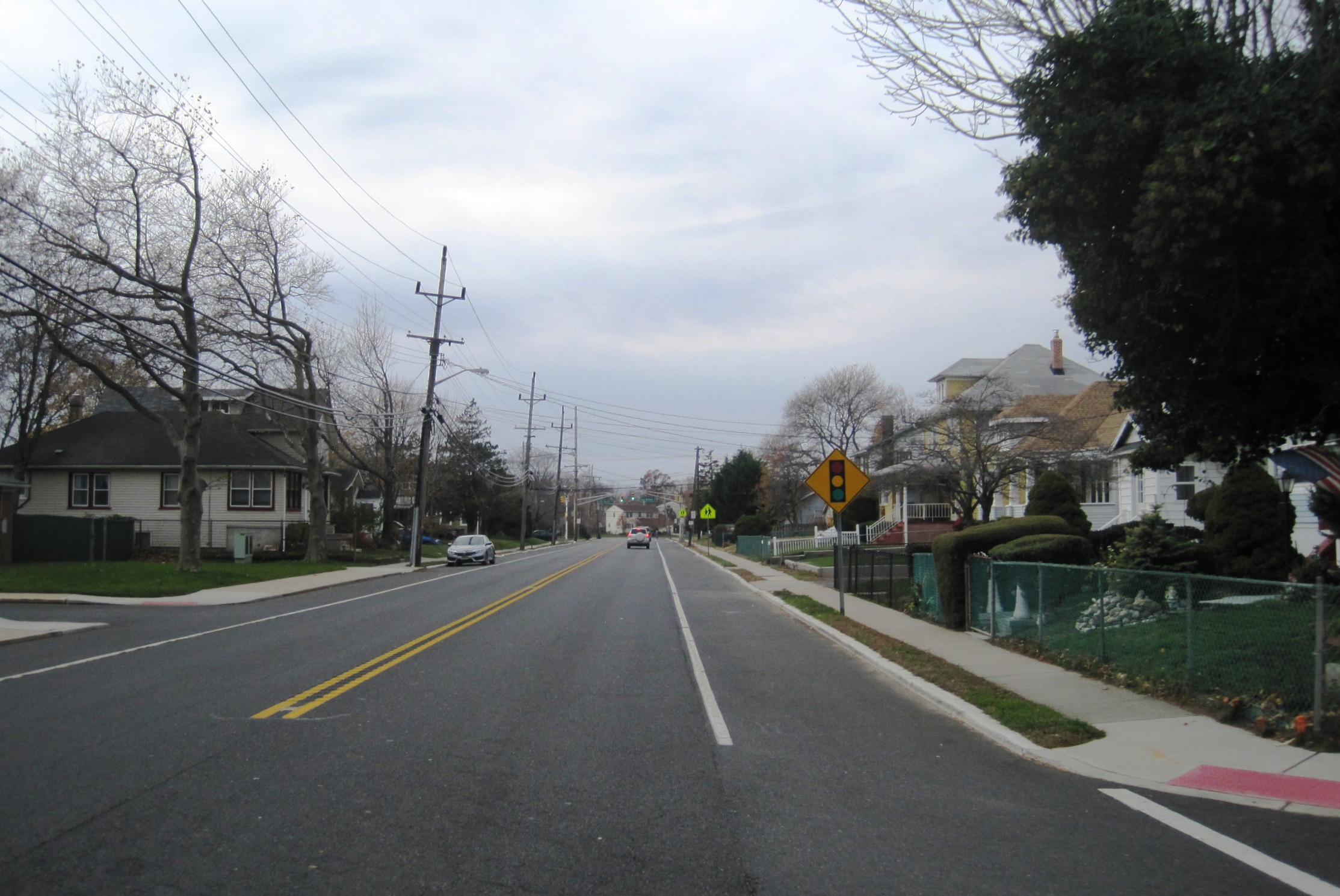 Photo showing North Long Branch, New Jersey, an unincorporated community within Long Branch. Photo taken along westbound Joline Avneue (New Jersey Route 36) at Hearn Avenue.